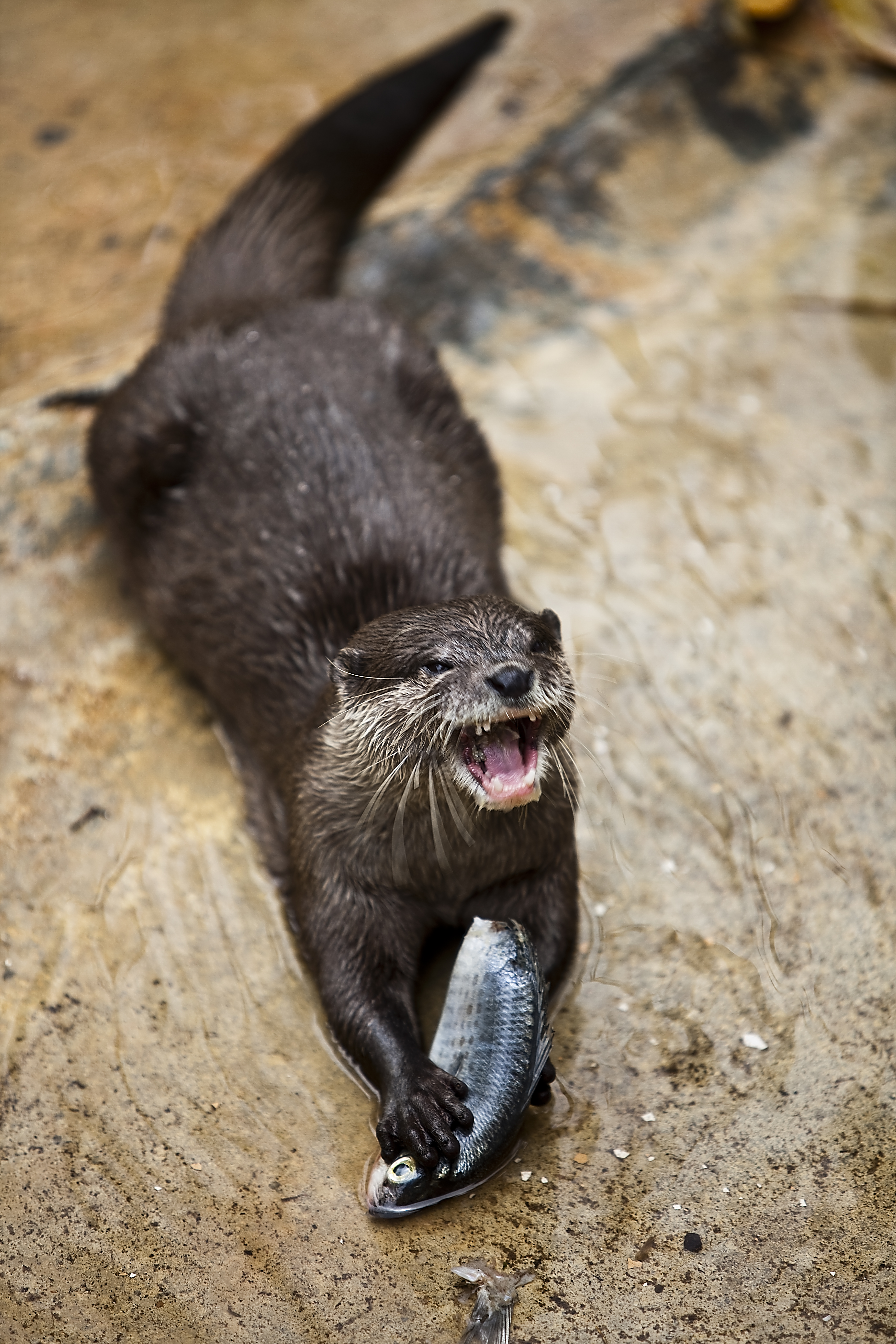 Oriental small-clawed otter